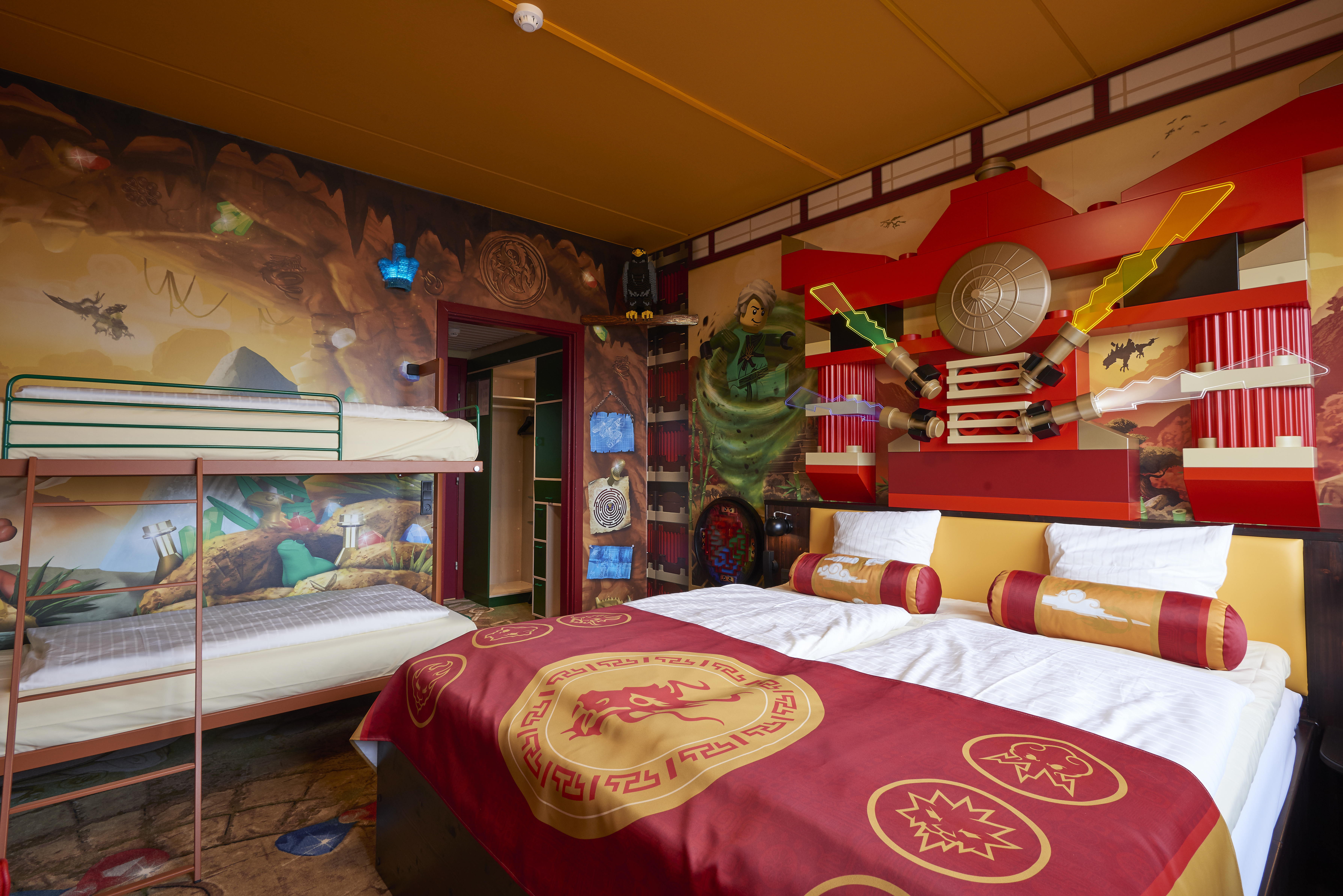 Ninjago room in Hotel Legoland at the amusement park Legoland Billund Resort in Denmark.